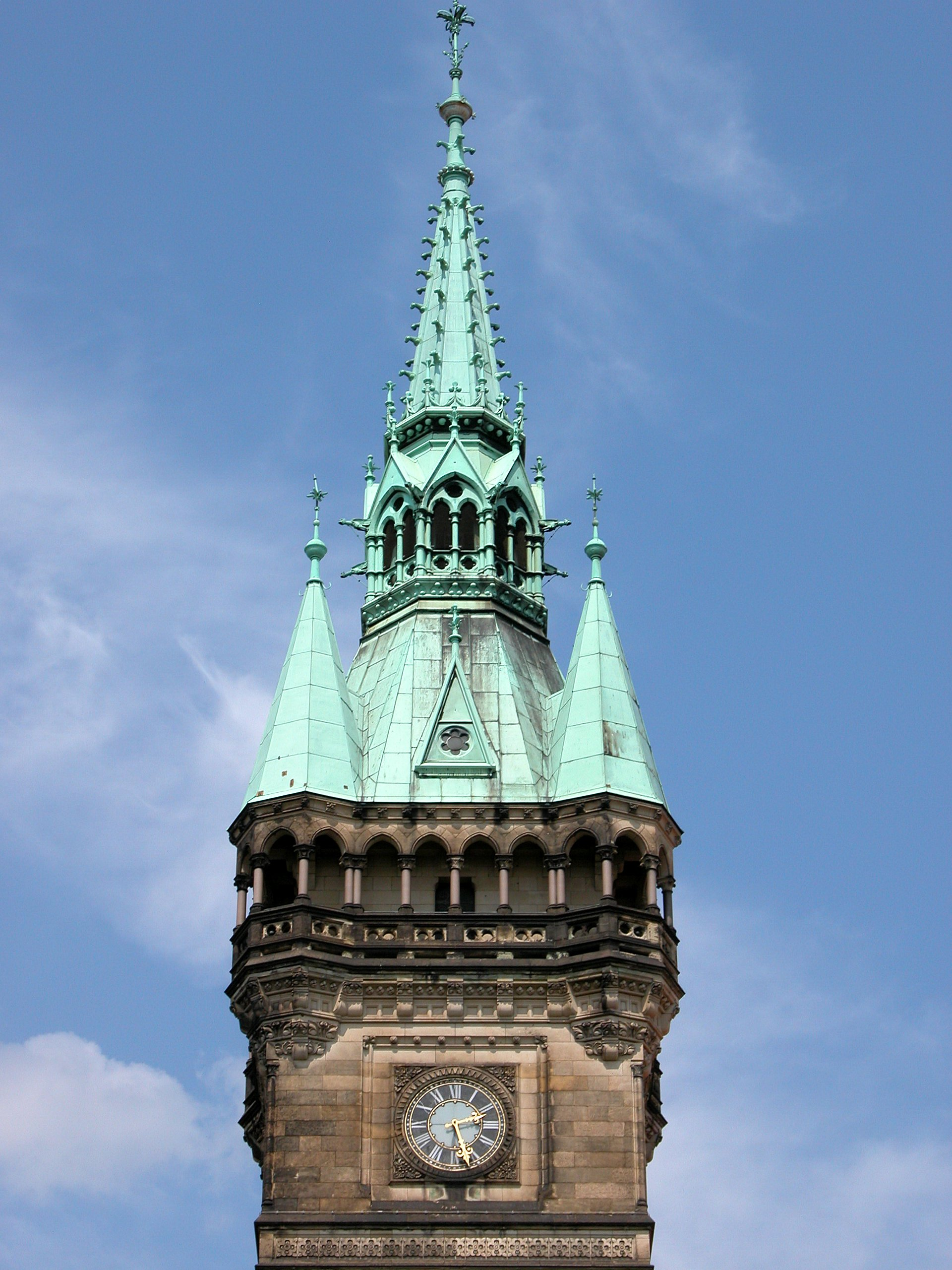 Braunschweig, Germany: Upper section of the City Hall’s tower.